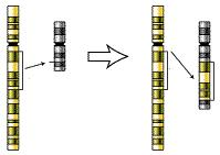 Different types of mutation